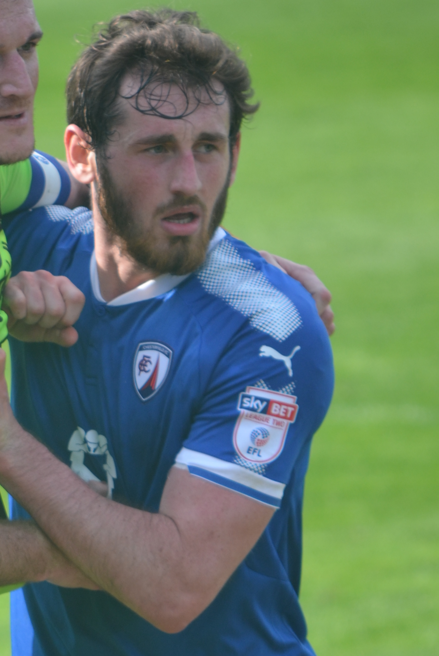 Jak McCourt playing for Chesterfield against Forest Green Rovers on 21 April 2018